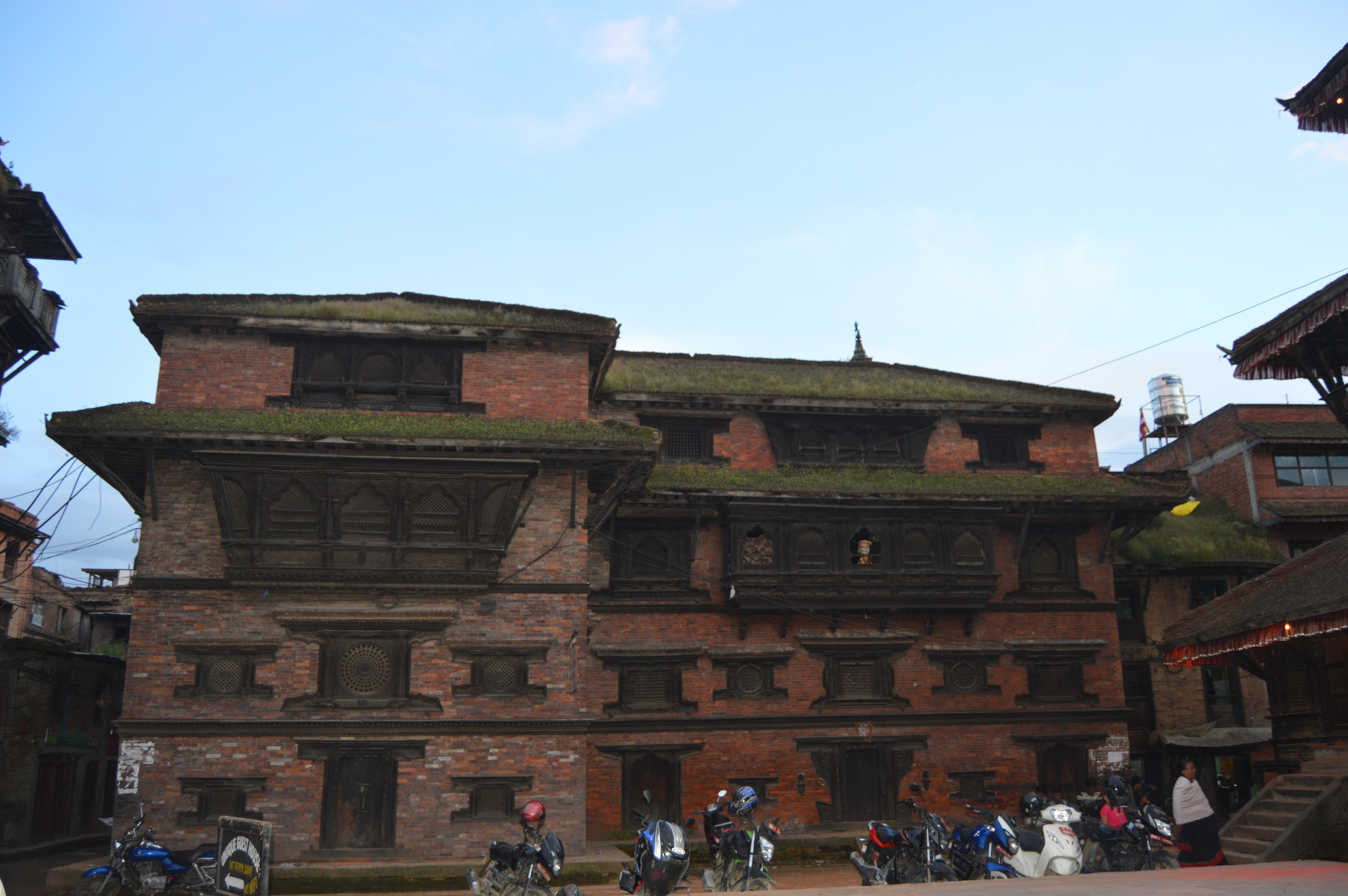 Dattatreya Temple